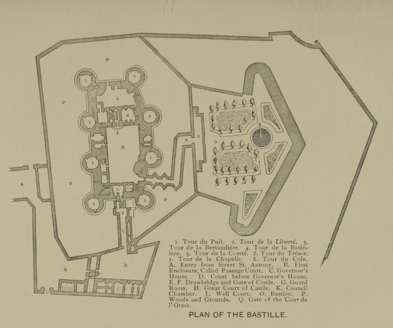 Plan of the Bastille